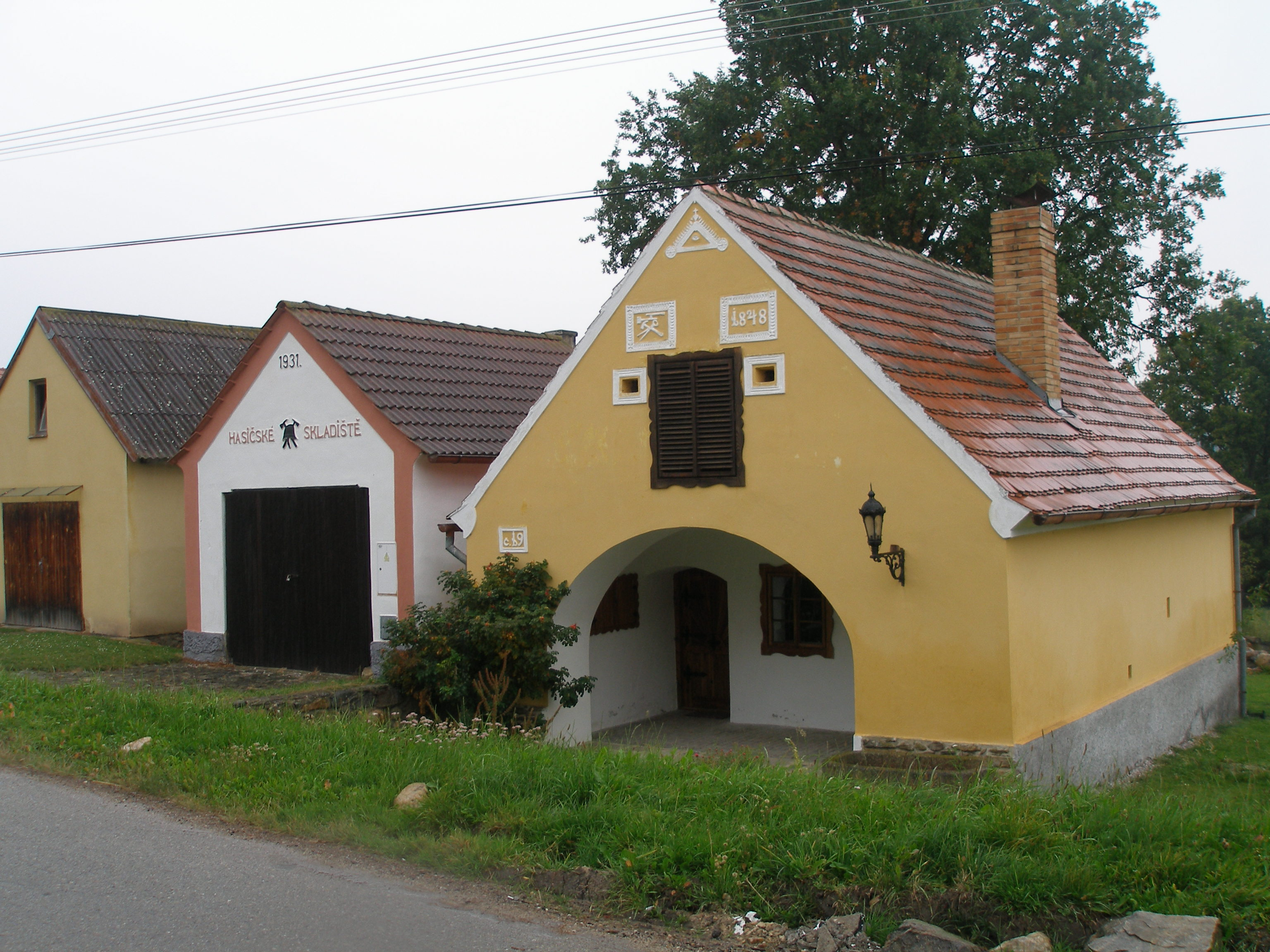 Tupesy (part of Radošovice, České Budějovice District) - the firehouse and the smithery